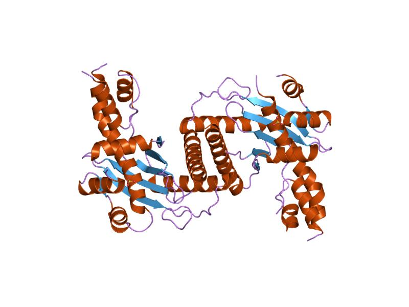 Cartoon representation of the molecular structure of protein registered with 1kcf code.